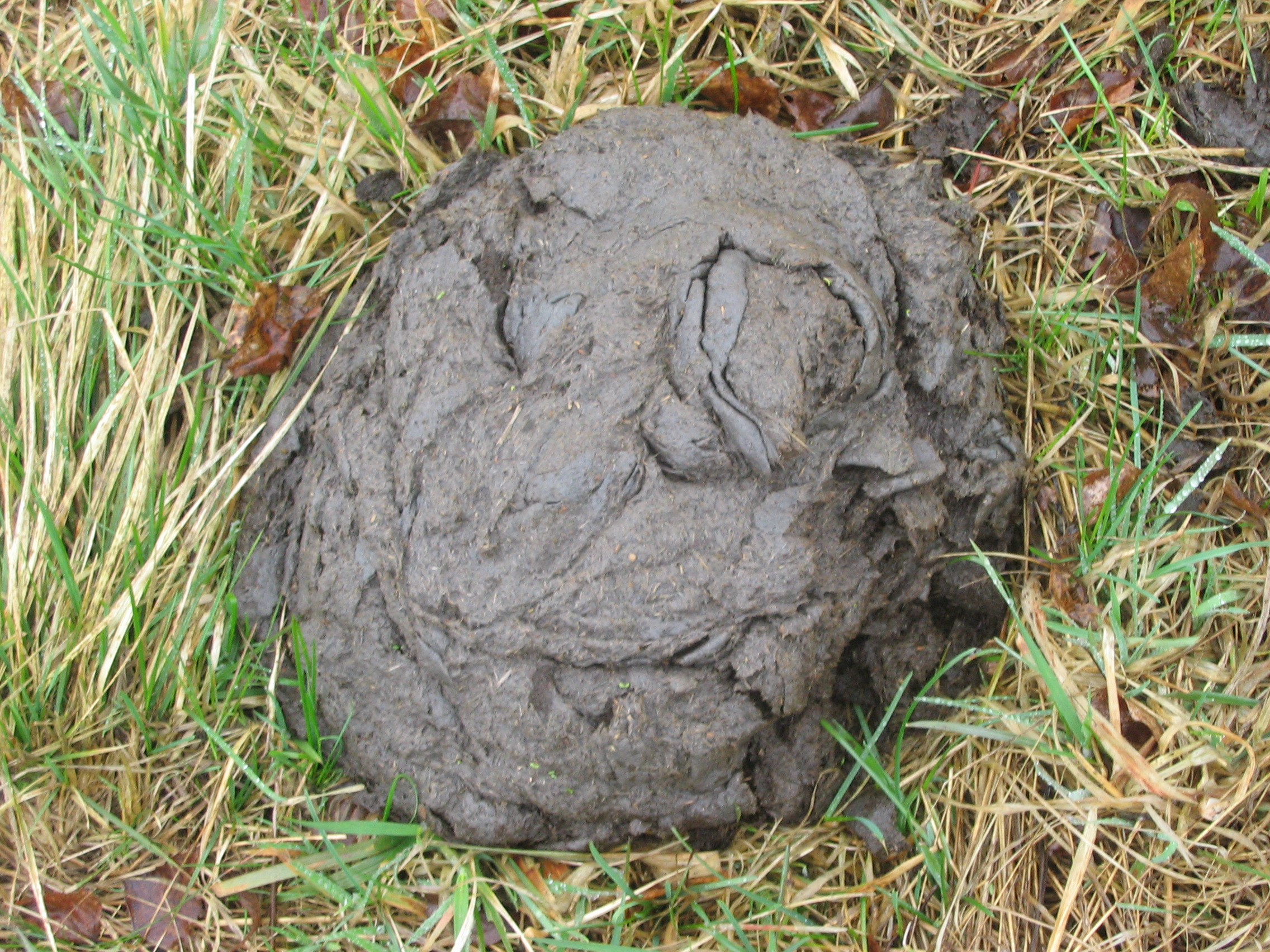 Wisent feces in village Skupowo (Białowieża Forest, POLAND)